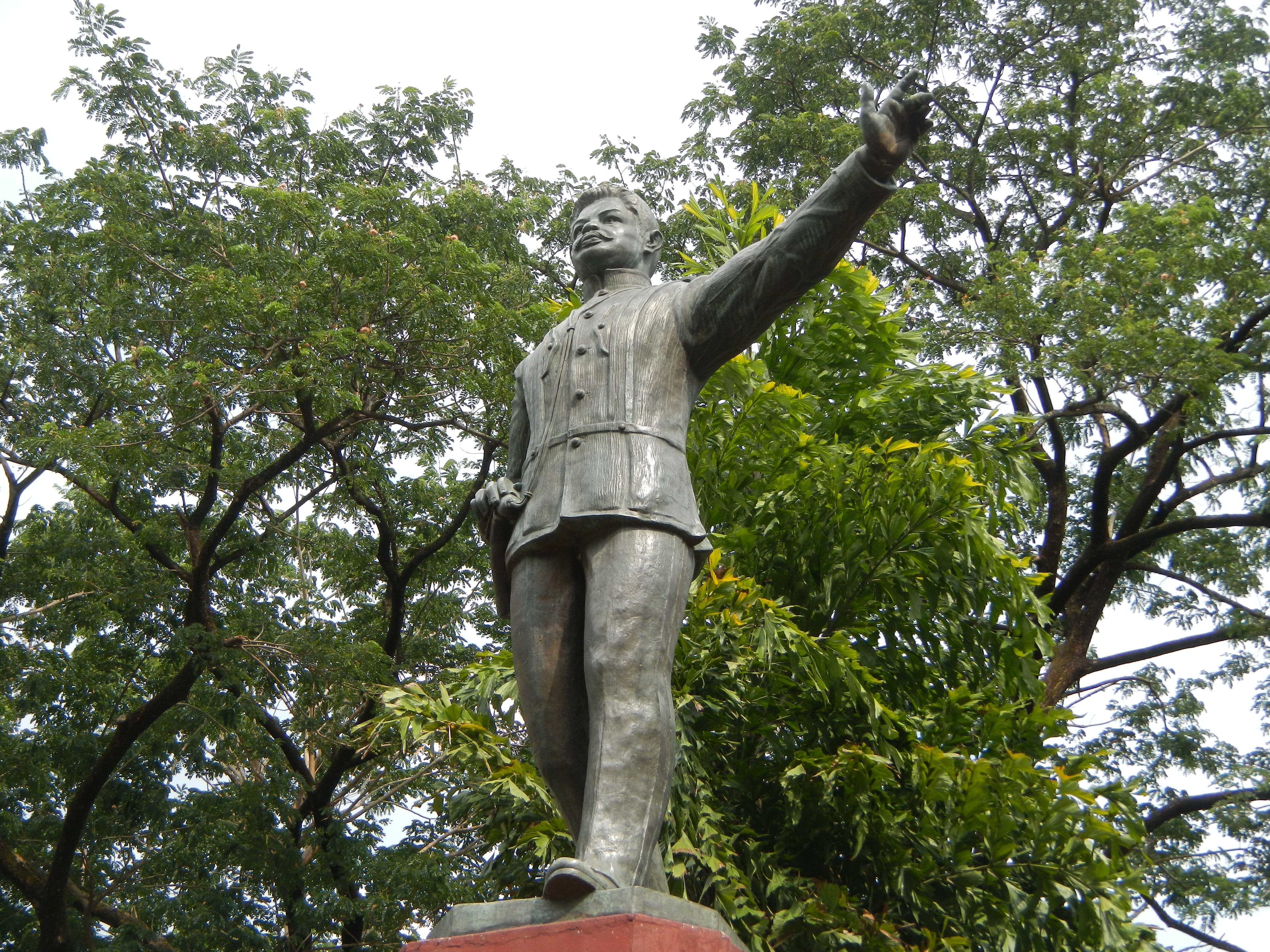 Antonio Luna Monument (Freedom Park, Cabanatuan City) Cabanatuan City, Nueva Ecija.